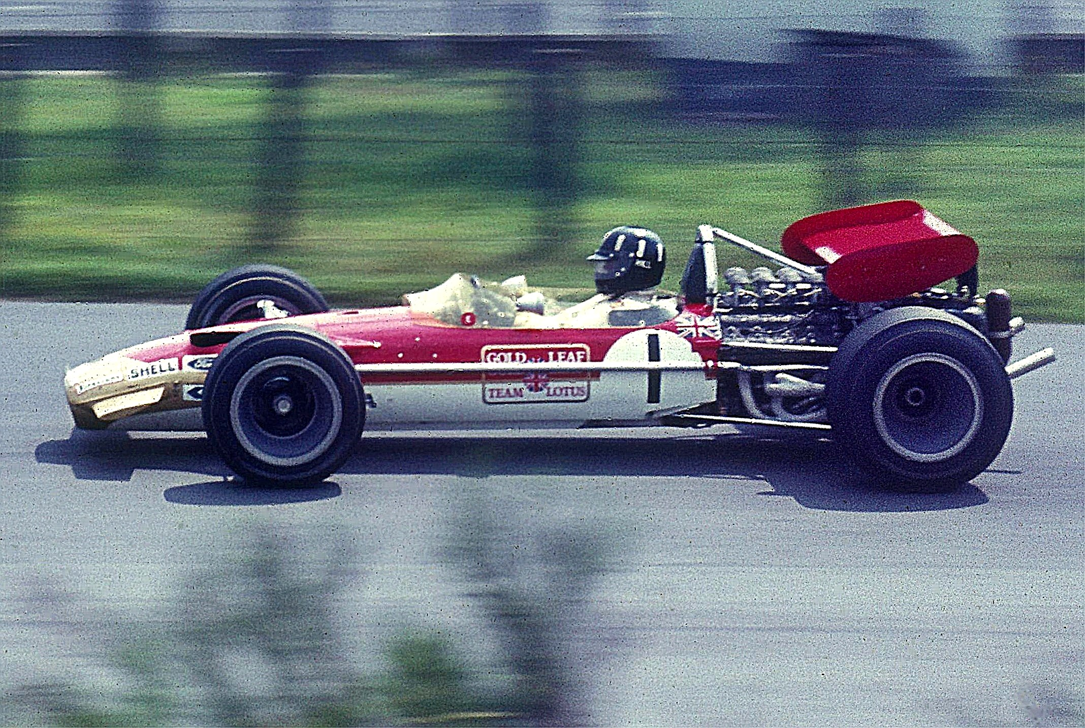 Graham Hill at the Nürburgring in 1969